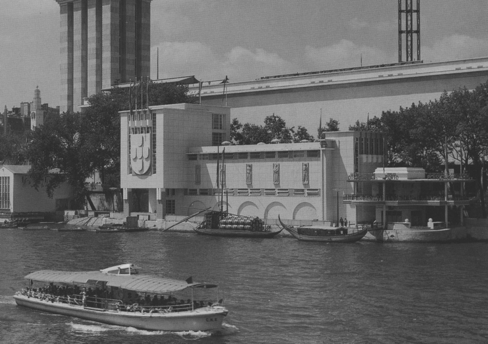 Portuguese Pavilion, Paris World Fair, 1937 (architecture: Keil do Amaral)